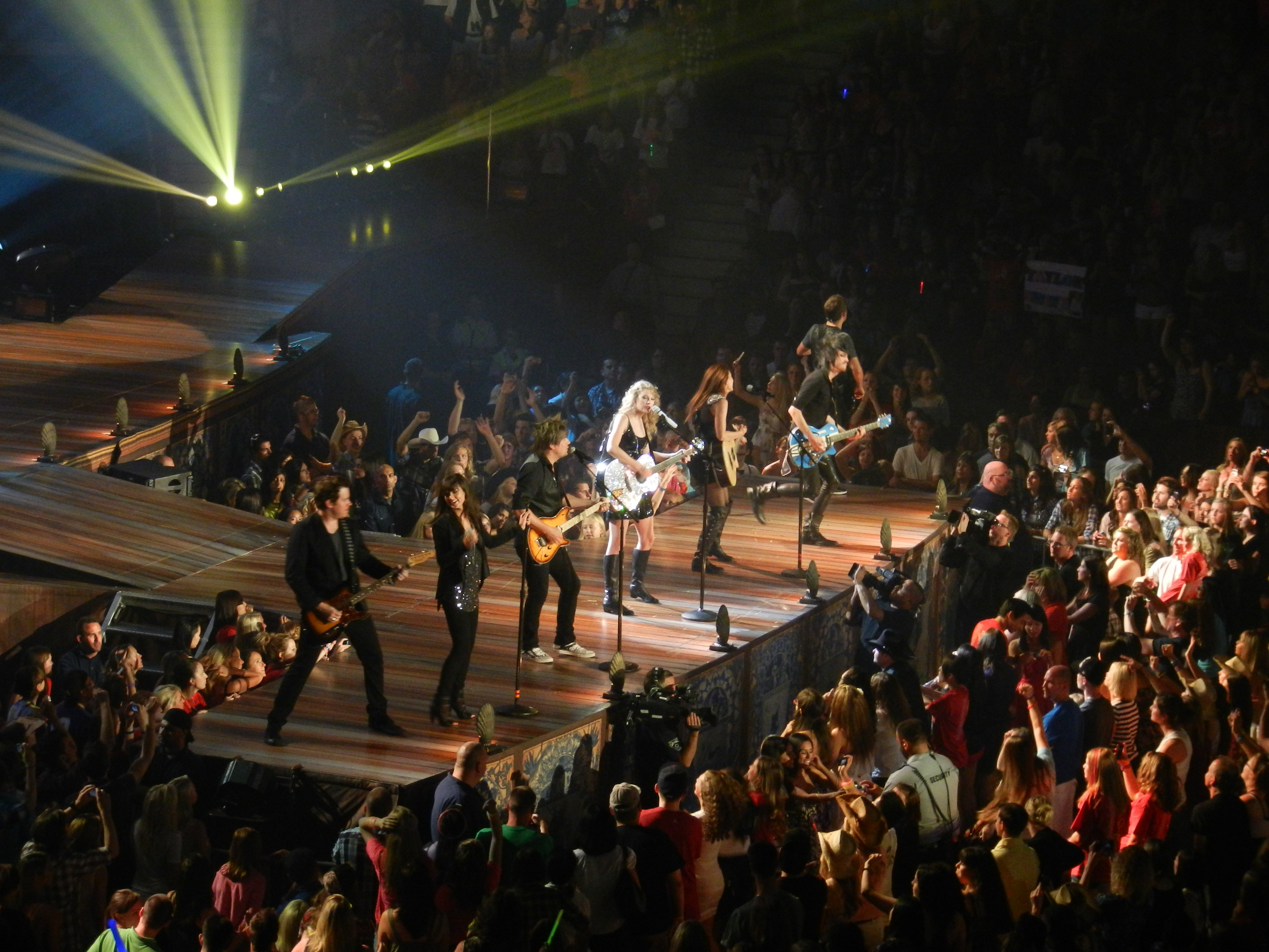 Speak Now World Tour in Vancouver on 11 September 2011